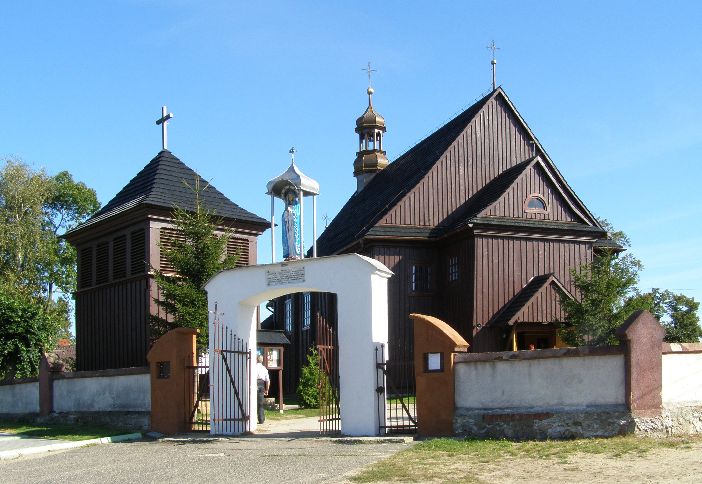 Church in Jeruzal (in real), or church in Wilkowyje (in fiction).